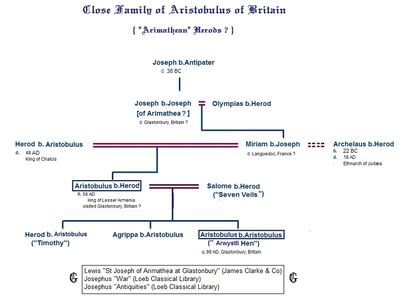 Close family of Aristobulus of Britain